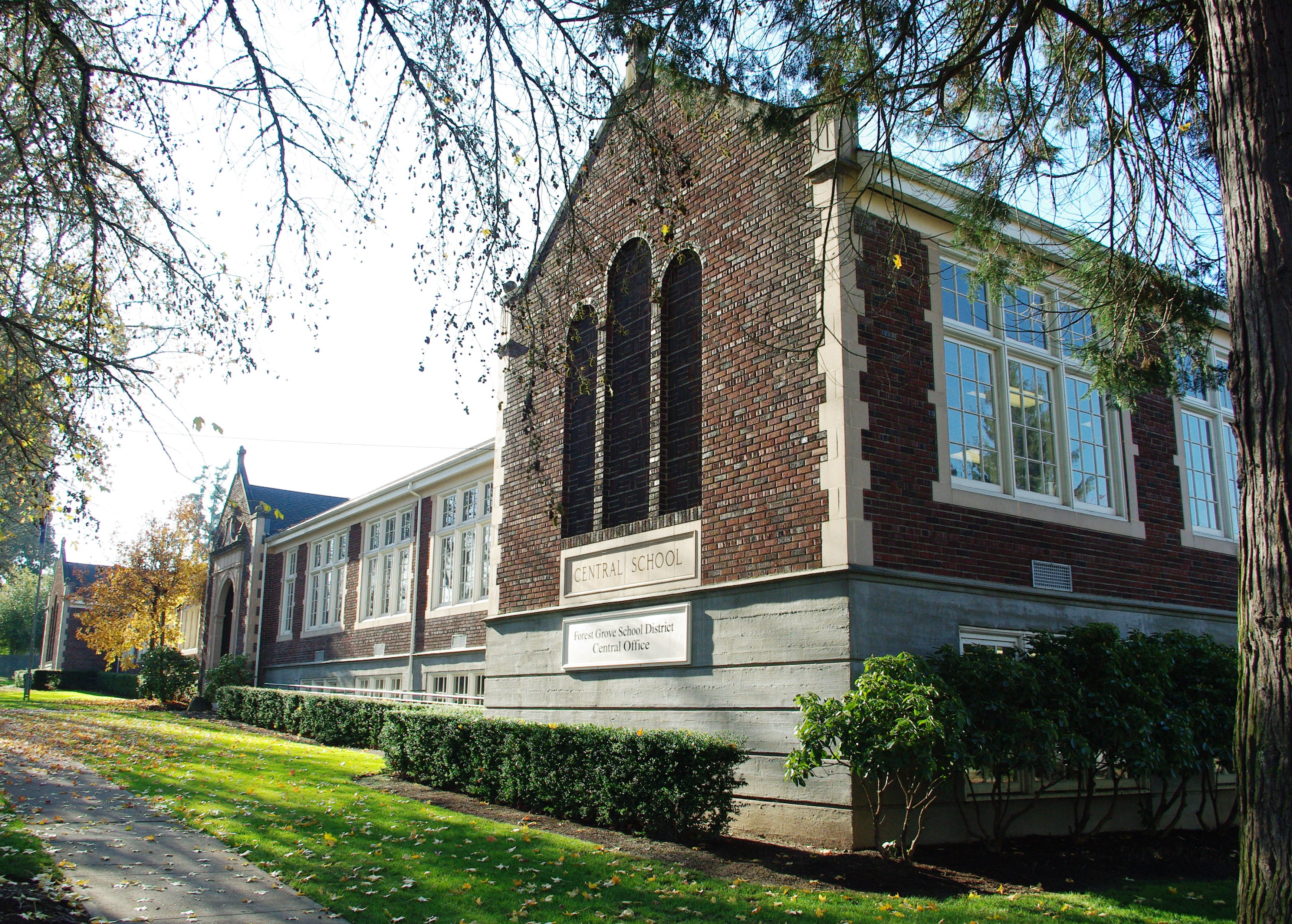 Former Central School and now Forest Grove School District offices in the Clark Historic District in Forest Grove, Oregon, USA.